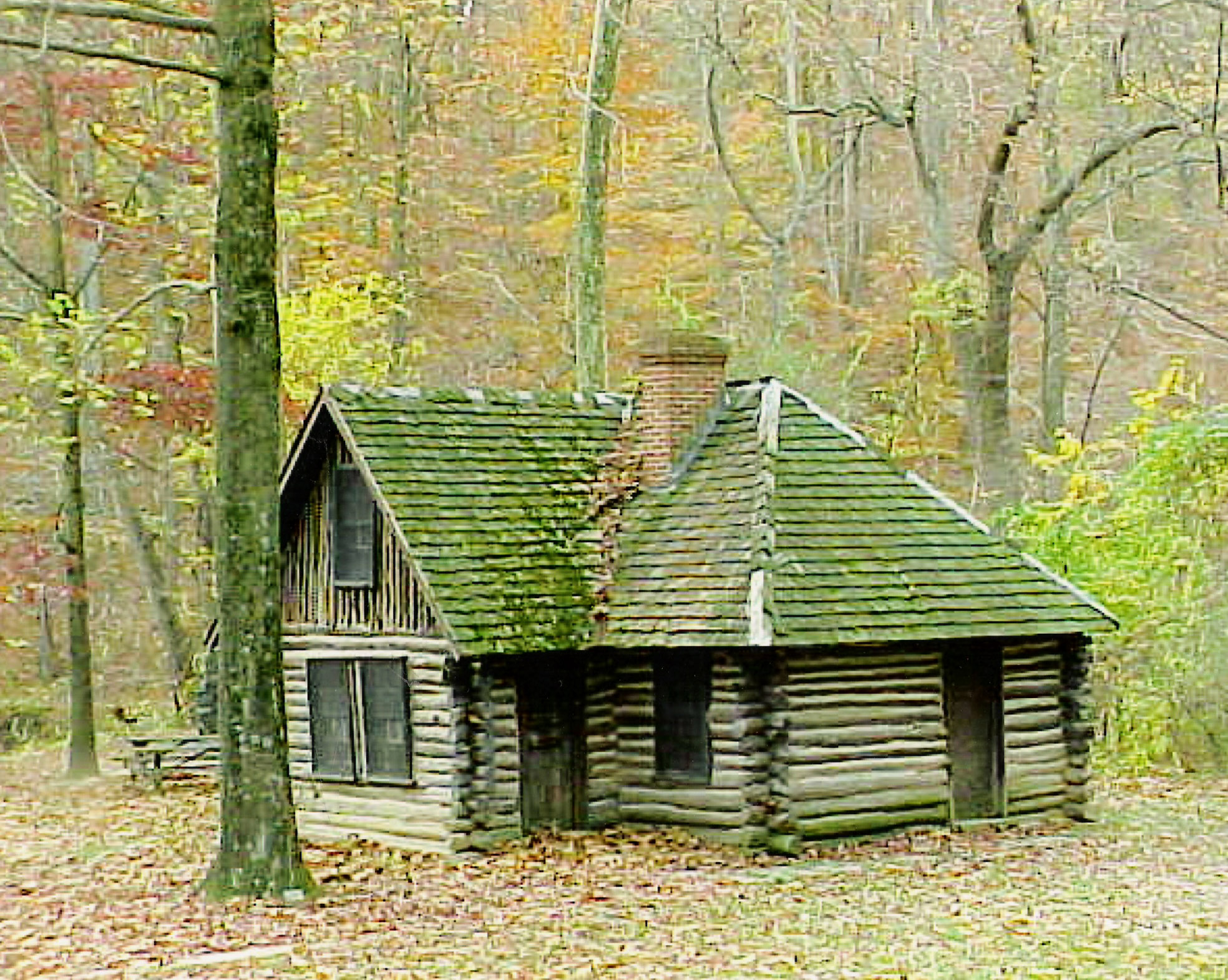 Log cabin home of Joaquin Miller